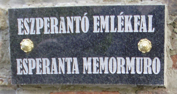 Esperanto memorial wall (title, Pécs, Hugary)